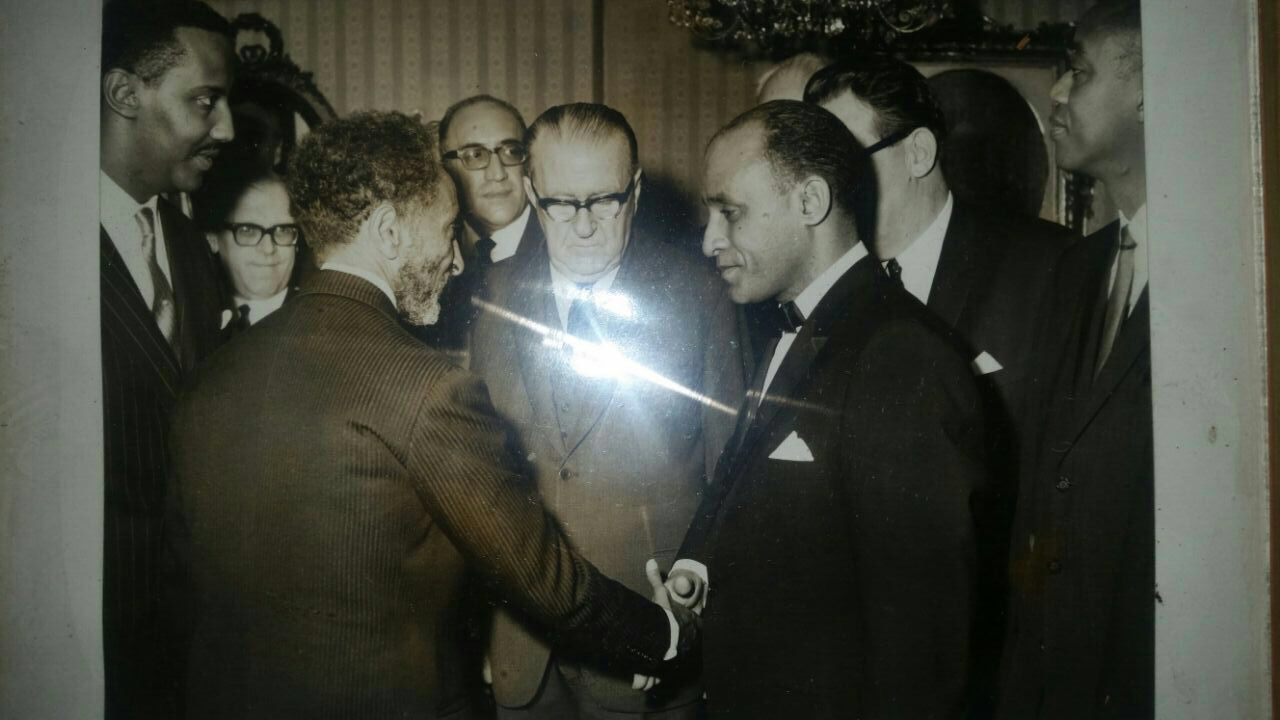 Dey Ould Sidi baba and the Emperor Haile Selassie